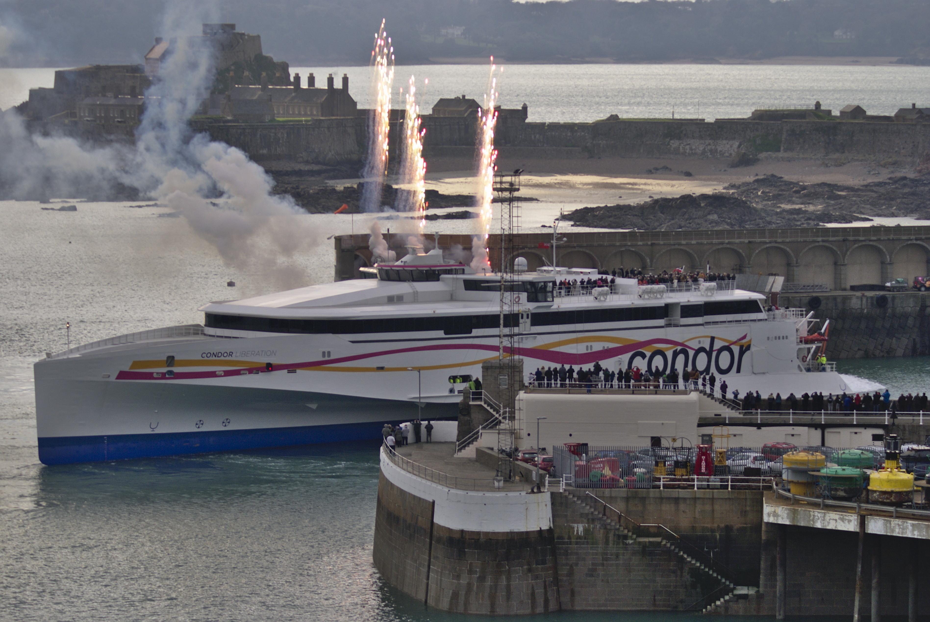 Condor Liberation arriving at Saint Helier Harbour in Jersey, Channel Islands.